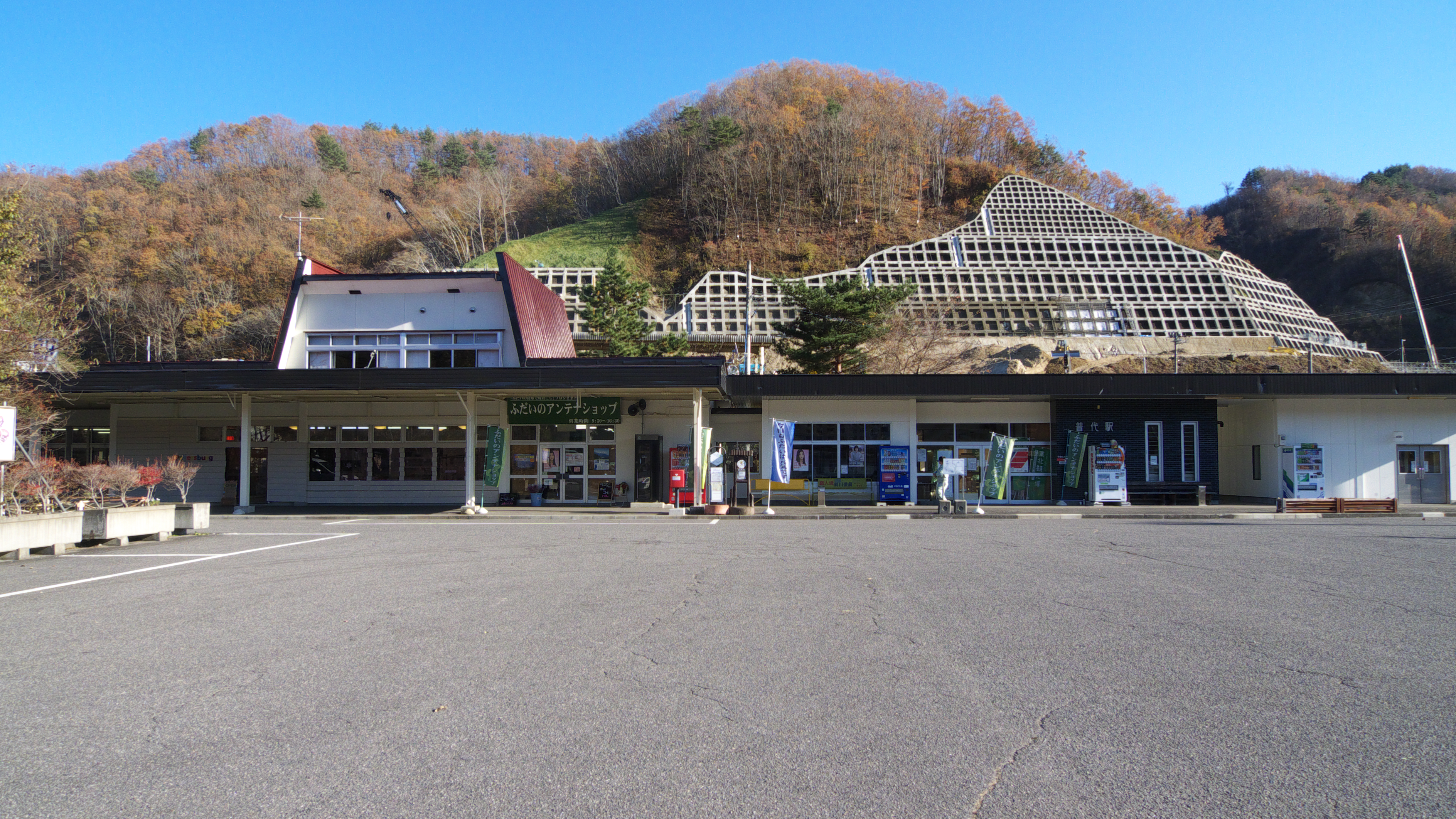 Fudai Station on Sanriku Railway Kita Riasu Line